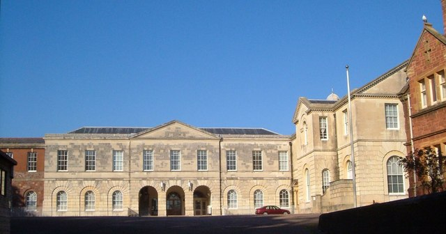 Law Courts in Exeter Castle Built in 1774 by Philip Stowey and Thomas Jones, "a restrained classical composition" (Cherry & Pevsner), and occupying the site of the castle. Seen from the gate at the top of Castle Street.